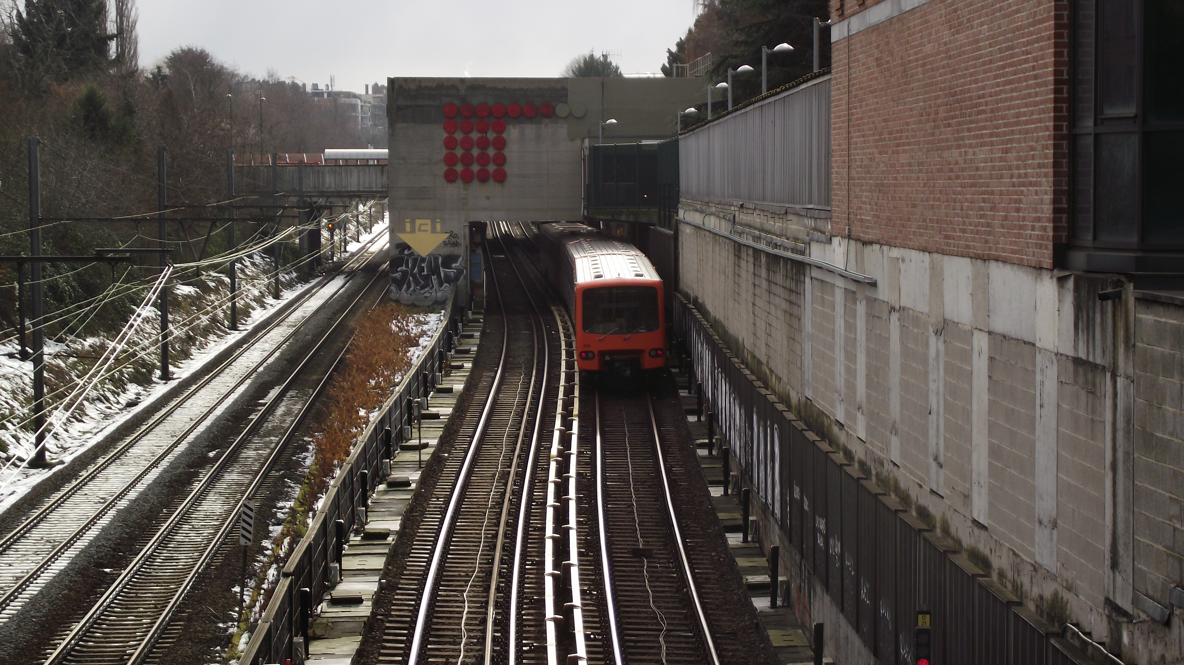 Brussels U2/U3 type metro viewed in the open air between Pétillon and Thieffry stations. In the distance is Pétillon station. To the left is the SNCB railway line 26 Halle Vilvoorde.